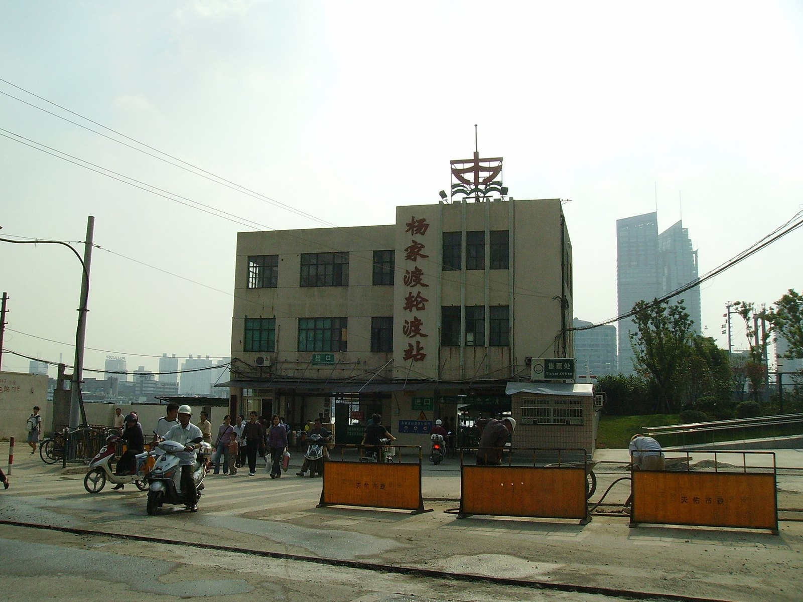 Yangjiadu Ferry